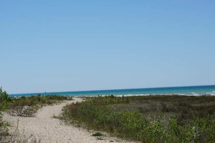 The abandoned Waugoshance Lighthouse in the background on the left